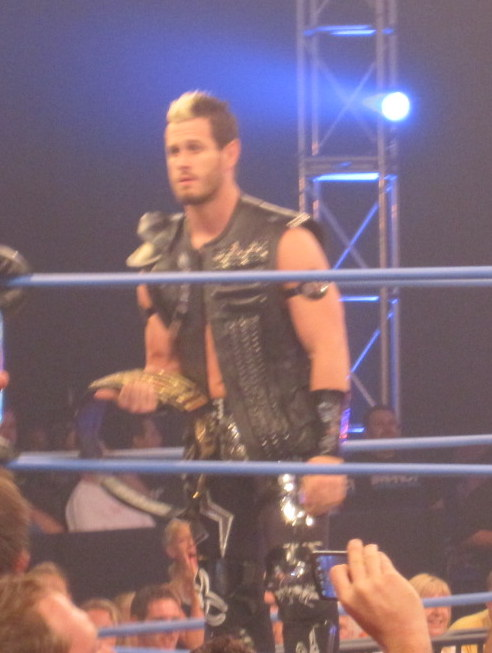 Sunday, June 12, 2011. Universal Orlando